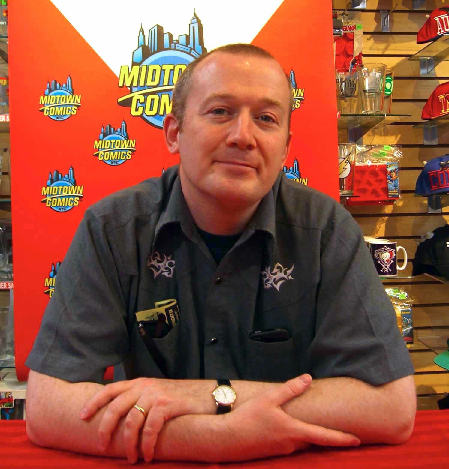 Writer Garth Ennis at an April 19, 2012 signing for The Shadow (volume 5) #1 at Midtown Comics Downtown in Manhattan. This photo was created by Luigi Novi. It is not in the public domain, and use of this file outside of the licensing terms is a copyright violation.